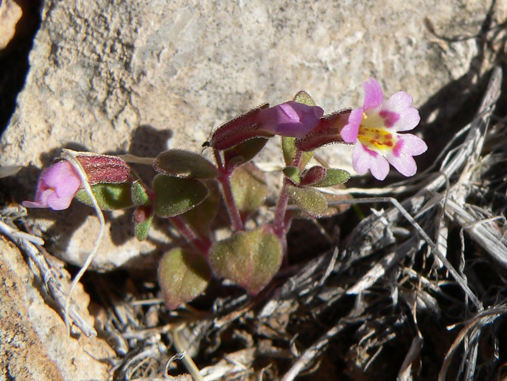 Mimulus rubellus on the lower slope of Fossil Ridge, Blue Diamond Hill, Spring Mountains, southern Nevada